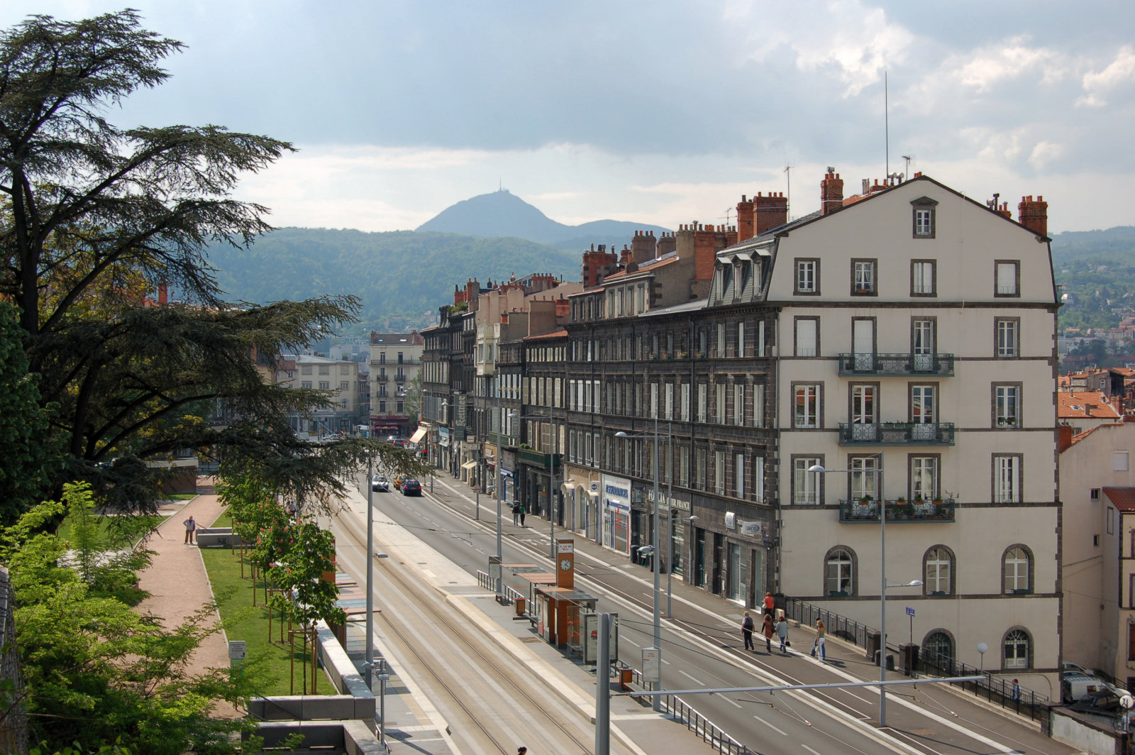 The "rue Montlosier" in Clermont-Ferrand. In the background, the Puy de Dôme